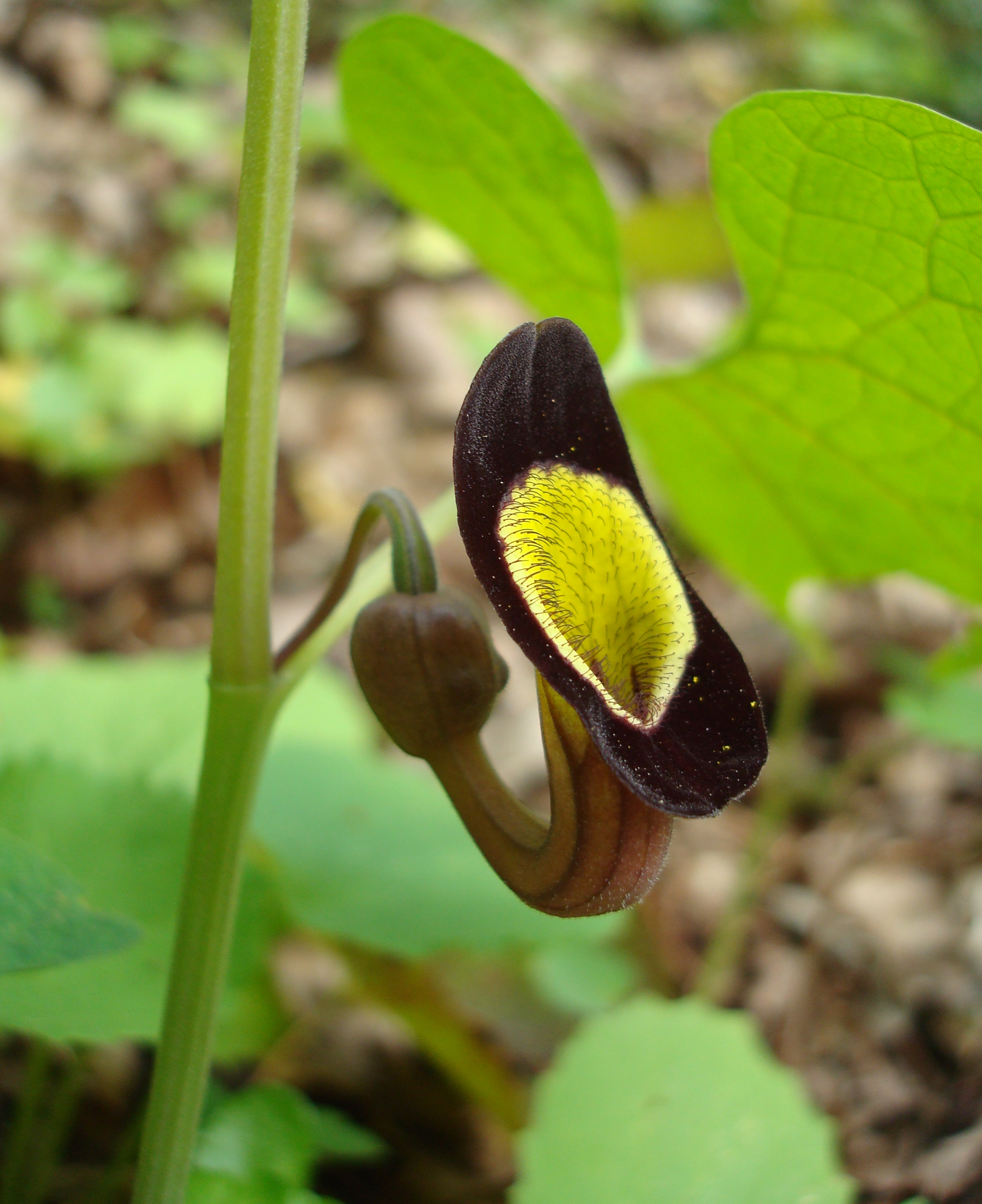 Aristolochia steupii. Wild-growing plant in the woods near Sochi. It is included in Red List. This image is related to the protected area of Russia number 2300355